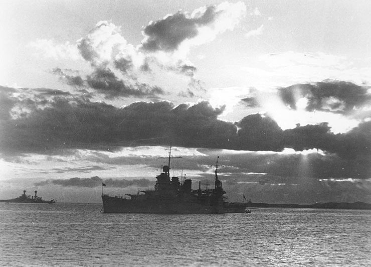 USS San Francisco (CA-38) at anchor in Guantanamo Bay, Cuba, in early April 1939. She was then Flagship, Cruiser Division 7, under Rear Admiral Husband E. Kimmel, USN.